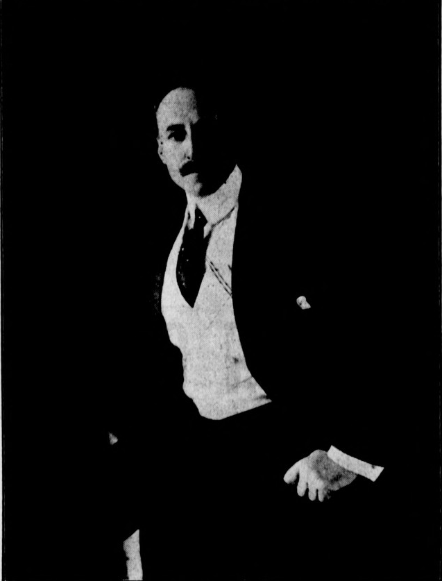 Alexander Revell